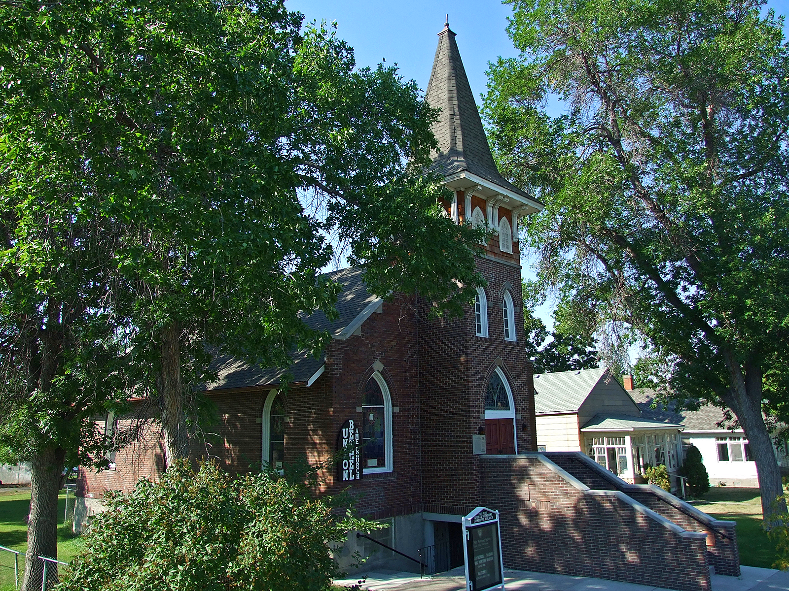 Union Bethel African Methodist Episcopal Church At the center of the African American community in Great Falls for more than a century, the Union Bethel AME Church began holding regular services in the first fire station in 1890. The following year African American residents gathered with white supporters to lay the cornerstone of their new building. Built on swampy ground on donated land, the building was hard to maintain, and by 1915 the wooden church had fallen into disrepair. Substantial contributions from its forty-member congregation as well as donations from sympathetic whites—gathered in a door-to-door campaign conducted by the church’s women—allowed the congregation to rebuild. Completed in 1917, the new Gothic style edifice incorporated the cornerstone of the original structure. Like many African American churches, the wood-frame, brick-veneer building served as both a religious and cultural center. Black secular organizations, like the Dunbar Art and Study Club, were rooted in the church, while pastors promoted the church as a source of wholesome entertainment for Great Falls’ black youth—akin to the YMCA for whites. As importantly, the church offered institutional support for its members, many of whom took leading roles in the fight against segregation in Great Falls. With opening access to other churches and institutions, membership in Union Bethel declined, and the church lost its resident minister in the 1970s. By 2000, however, a full-time minister once again served the church, whose interracial congregation draws members from both long-time Great Falls residents and personnel from nearby Malmstrom Air Force Base.